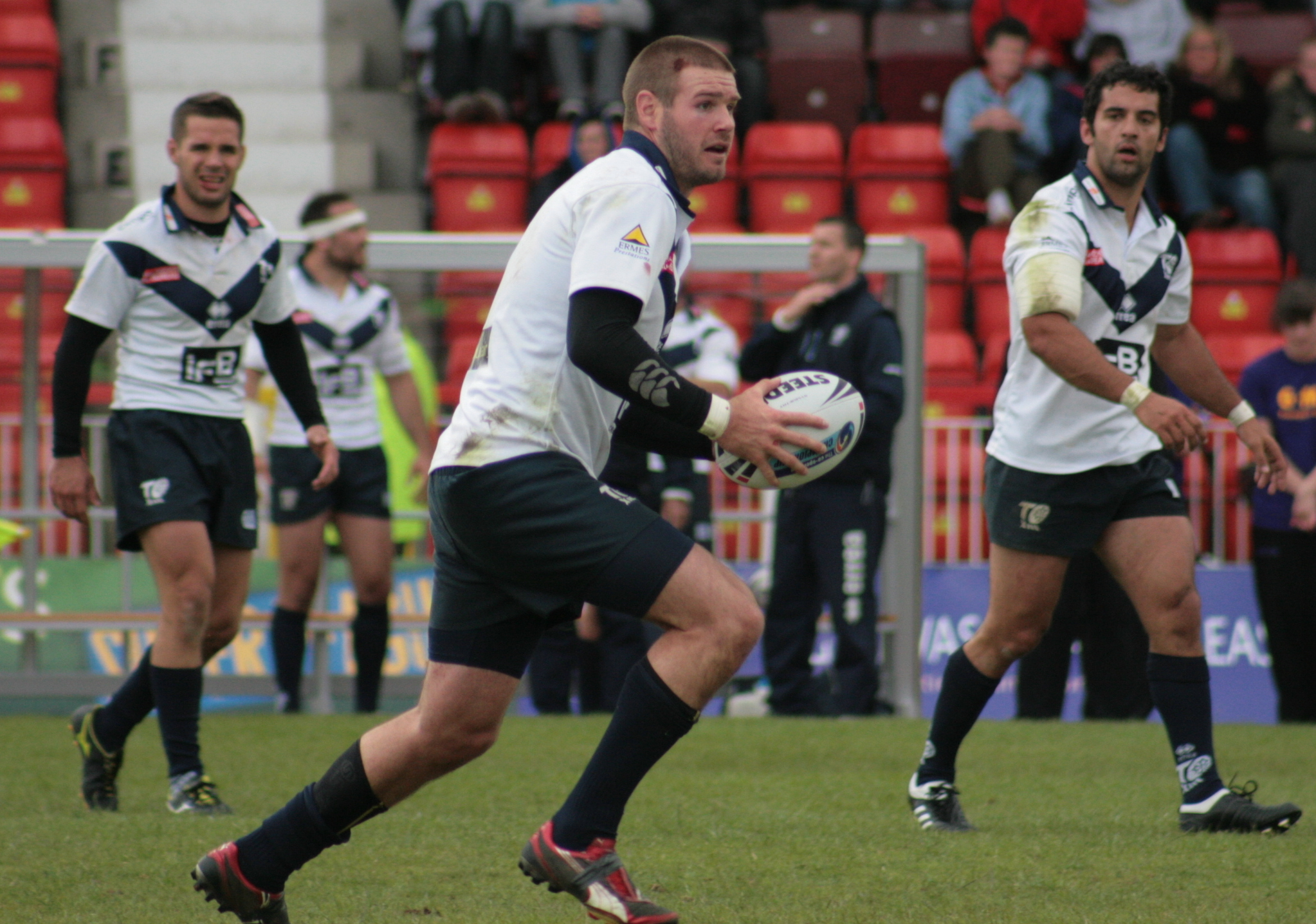 Photo of Nathan Wynn and other players from the Toulouse Olympique in a rugby league match against Gateshead Thunder in Co-operative Championship (2009).